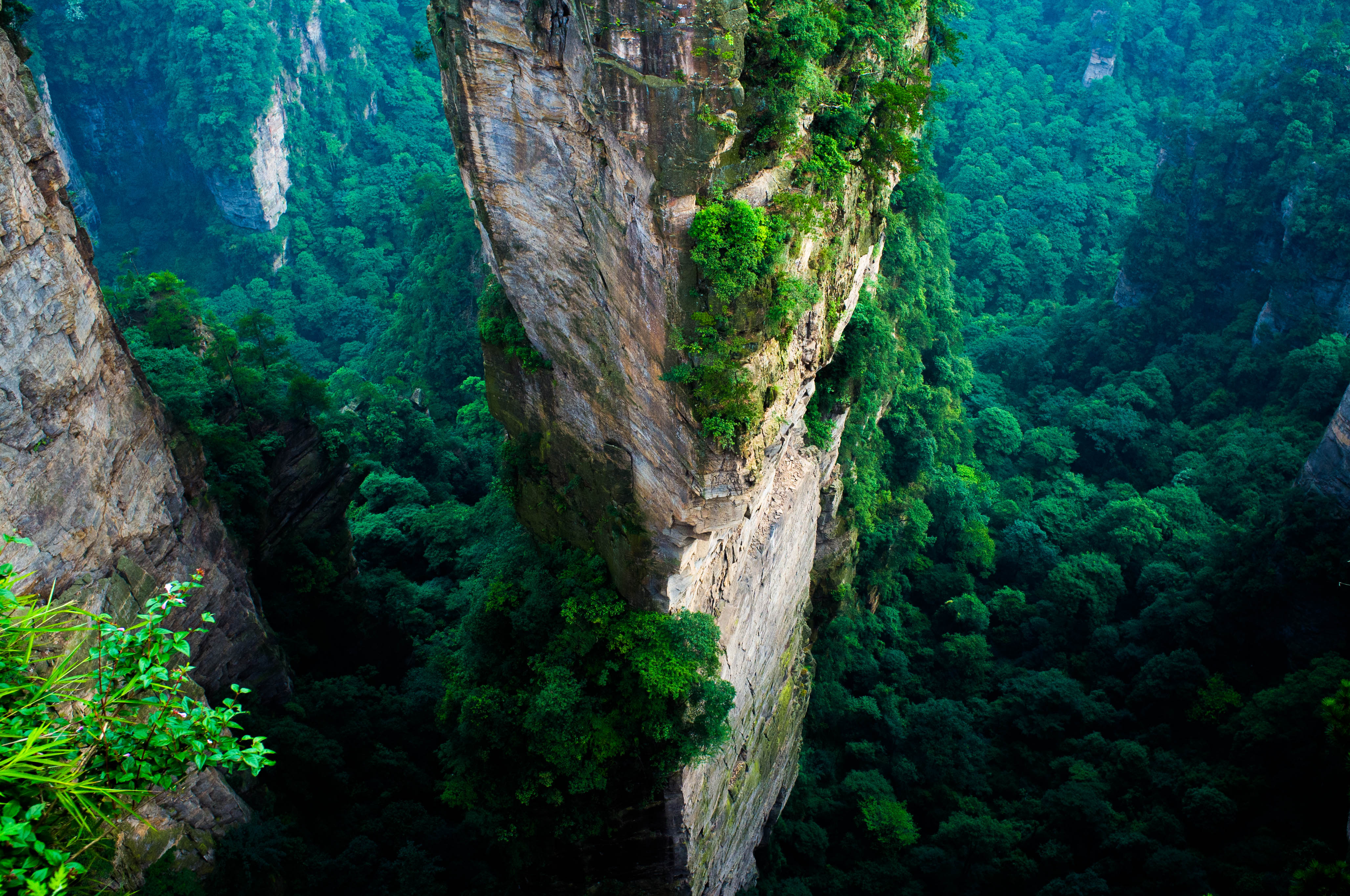 Zhangjiajie National Forest Park